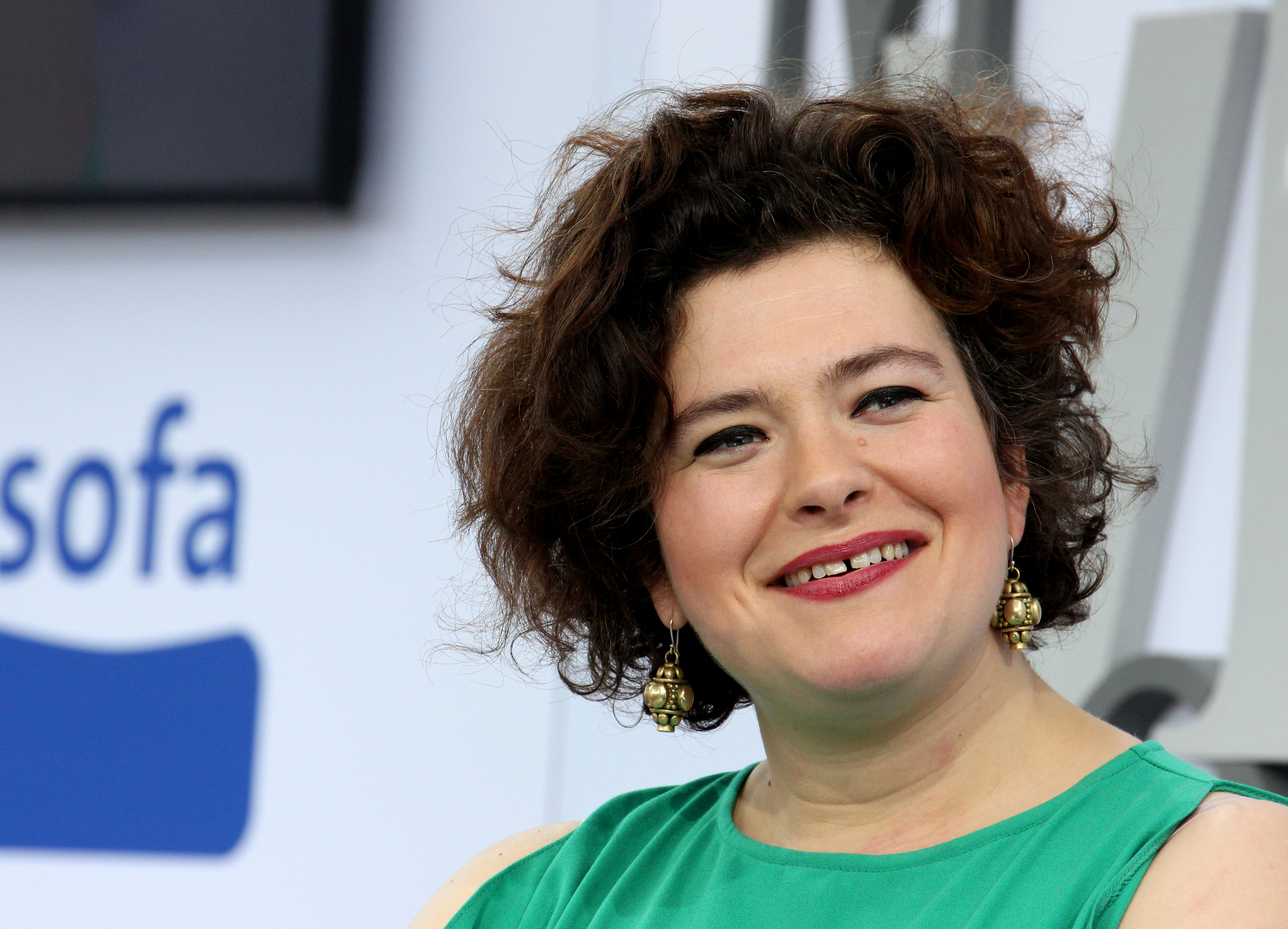 Nora Gomringer Leipzig Book Fair 2017